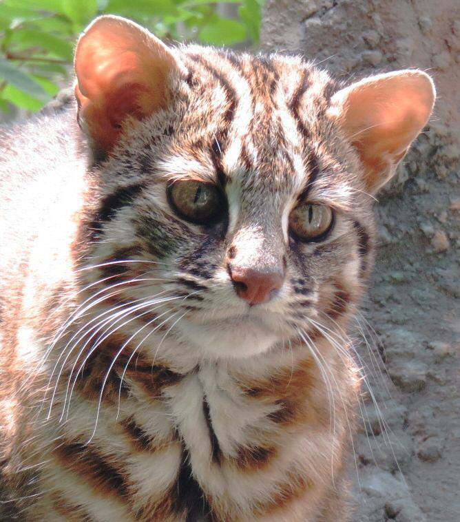 Prionailurus bengalensis euptilurus in Higashiyama Zoo